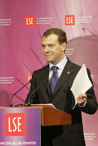 LONDON. At a meeting with the students and staff of the London School of Economics and Political Science.